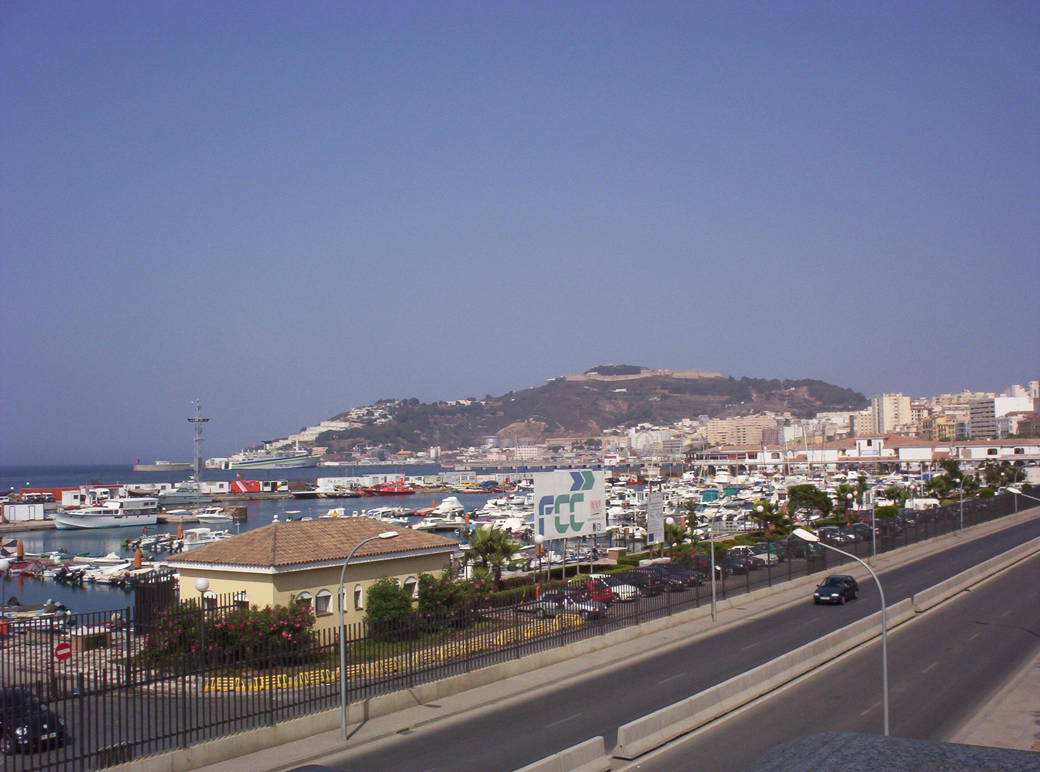 Monte Hacho , Ceuta Spain. Ceuta harbour is in the foreground.